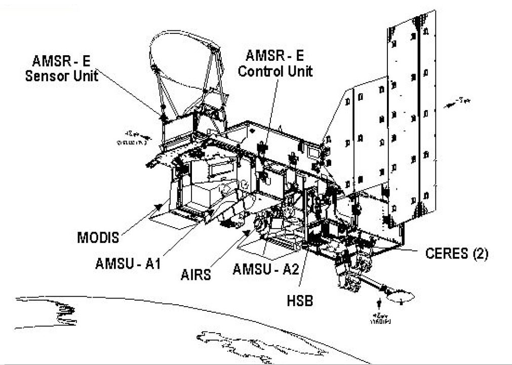 Aqua Spacecraft Configuration